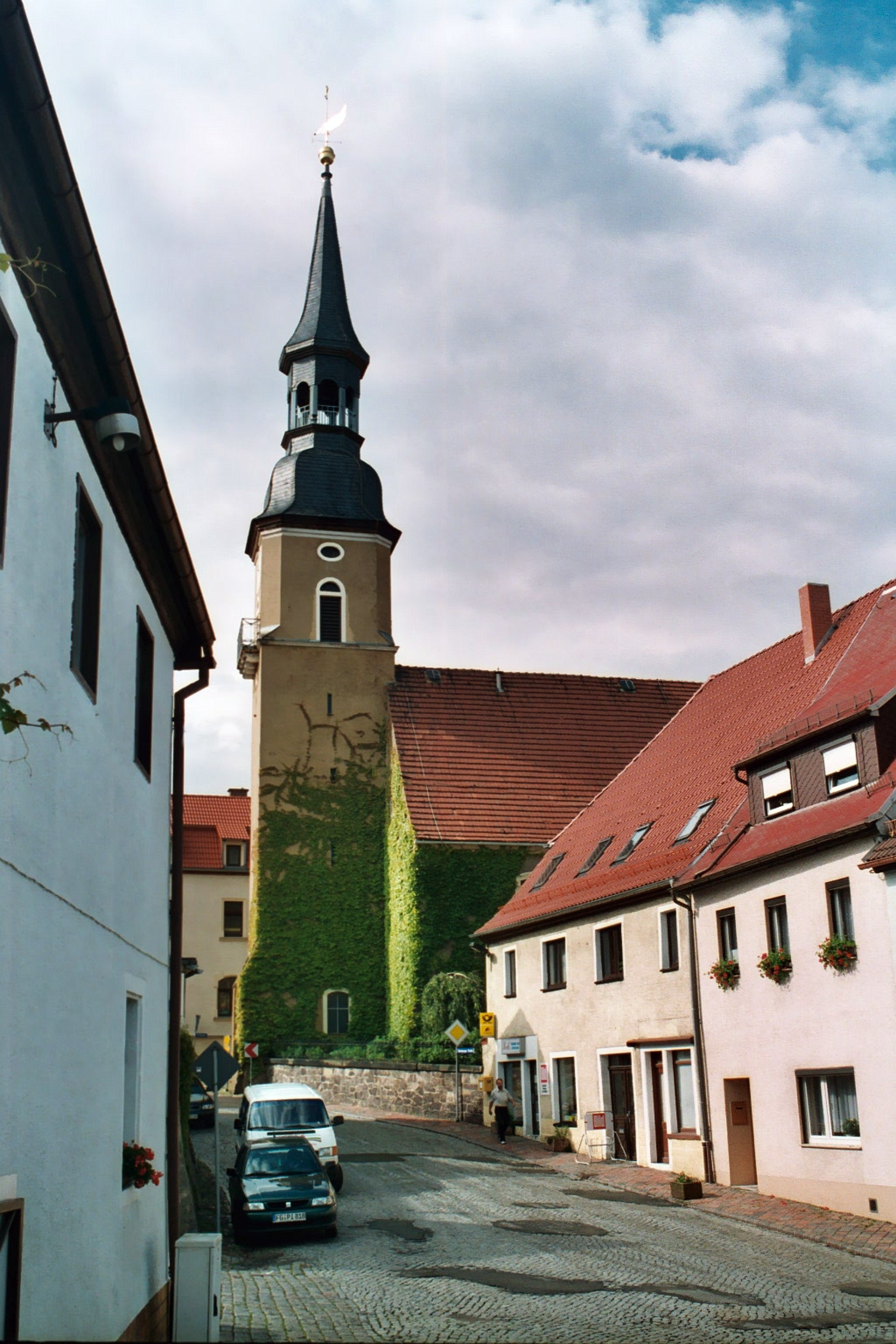 Siebenlehn (Großschirma), the church